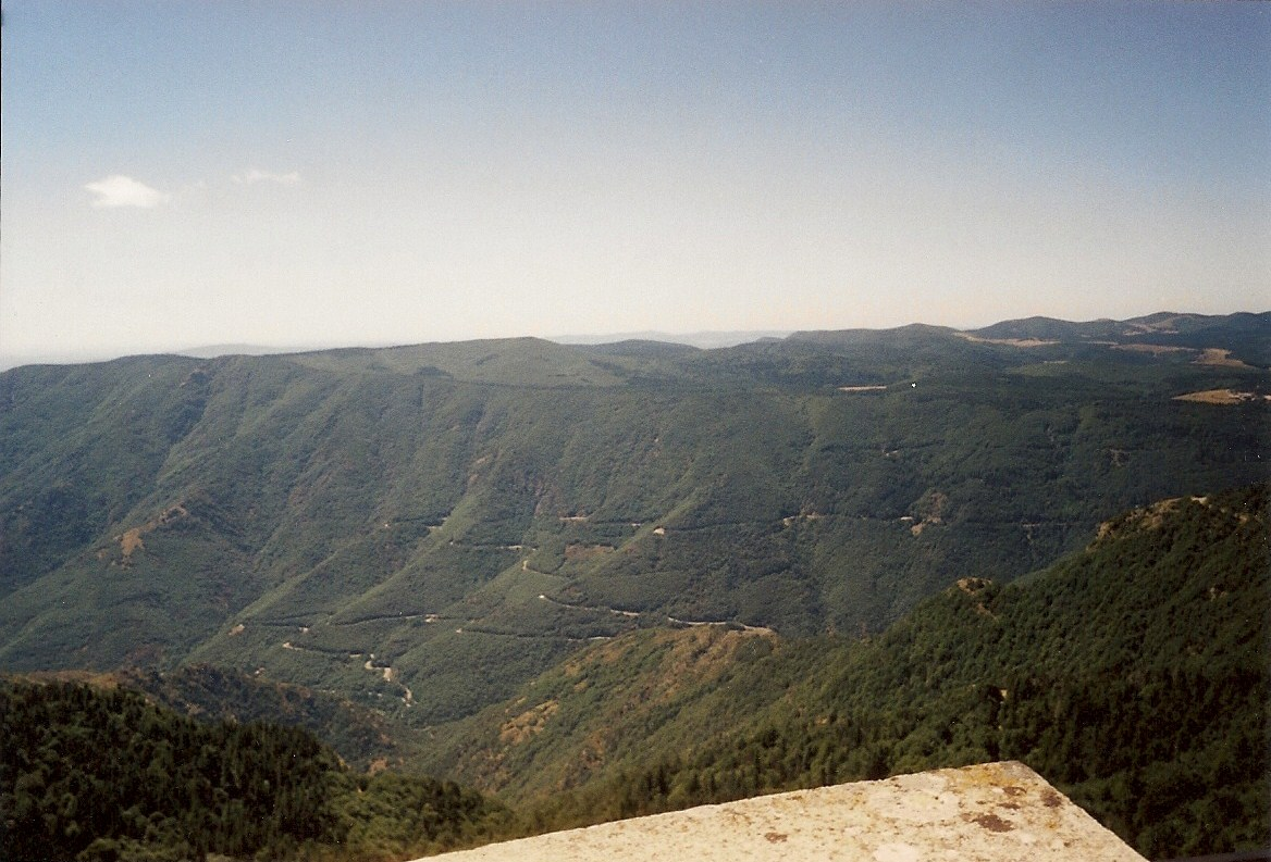 The road which goes to l'Esperou